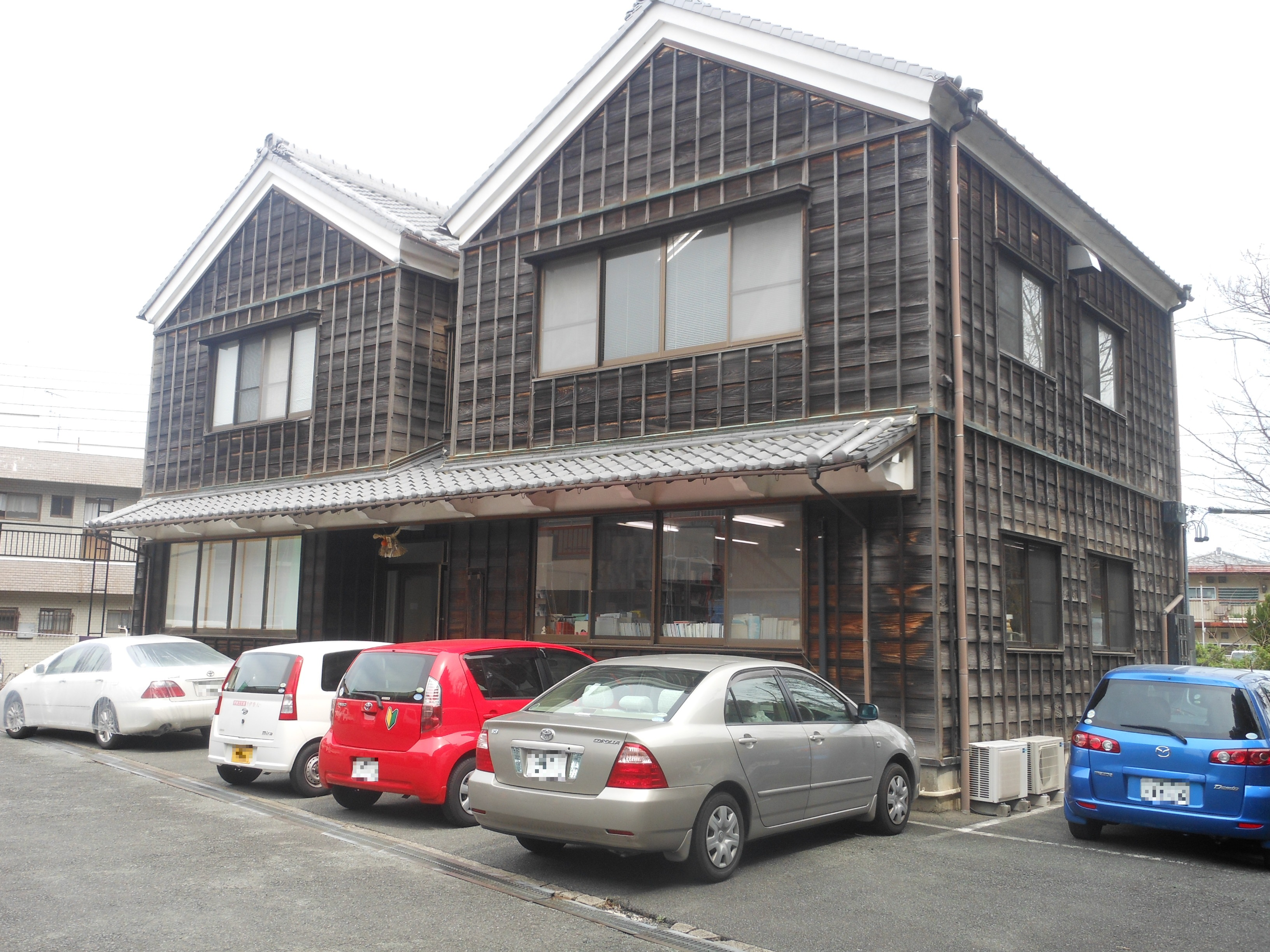 This is the Ise Kuratayama Cultural Building or Ise Kuratayama Bunka Kan, which is located in Ise, Mie, Japan.